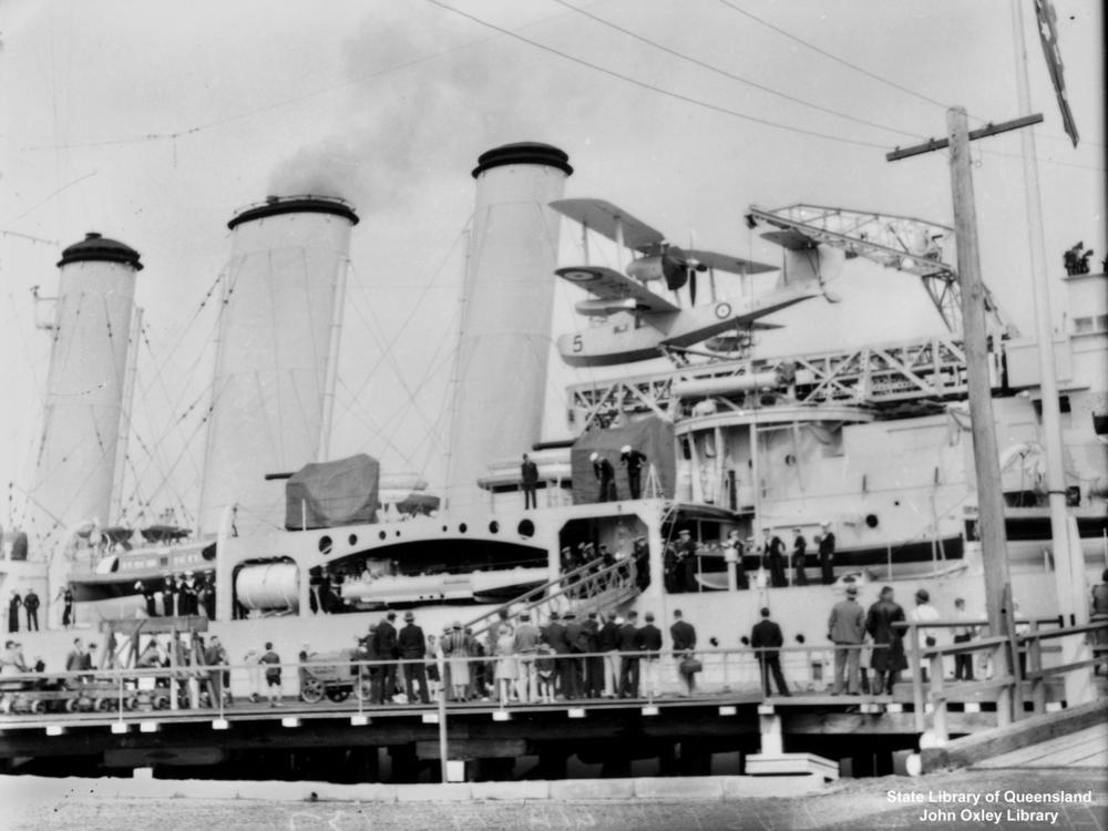 Australia (ship). H.M.A.S. Australia in Brisbane, 17 July 1937. A Supermarine Walrus is sitting on the ship's aircraft catapult